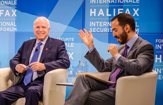 John Tepperman with Senator John McCain at the Halifax International Security Forum 2014